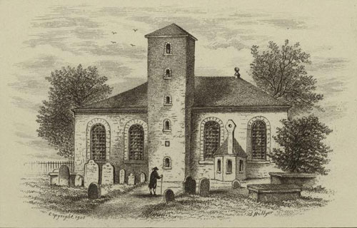 Huguenot Church New York City – “Saint-Esprit”, the French Reformed Church on Pine Street, New York, 1905 engraving from Samuel Hollyer’s series of Old New York scenes